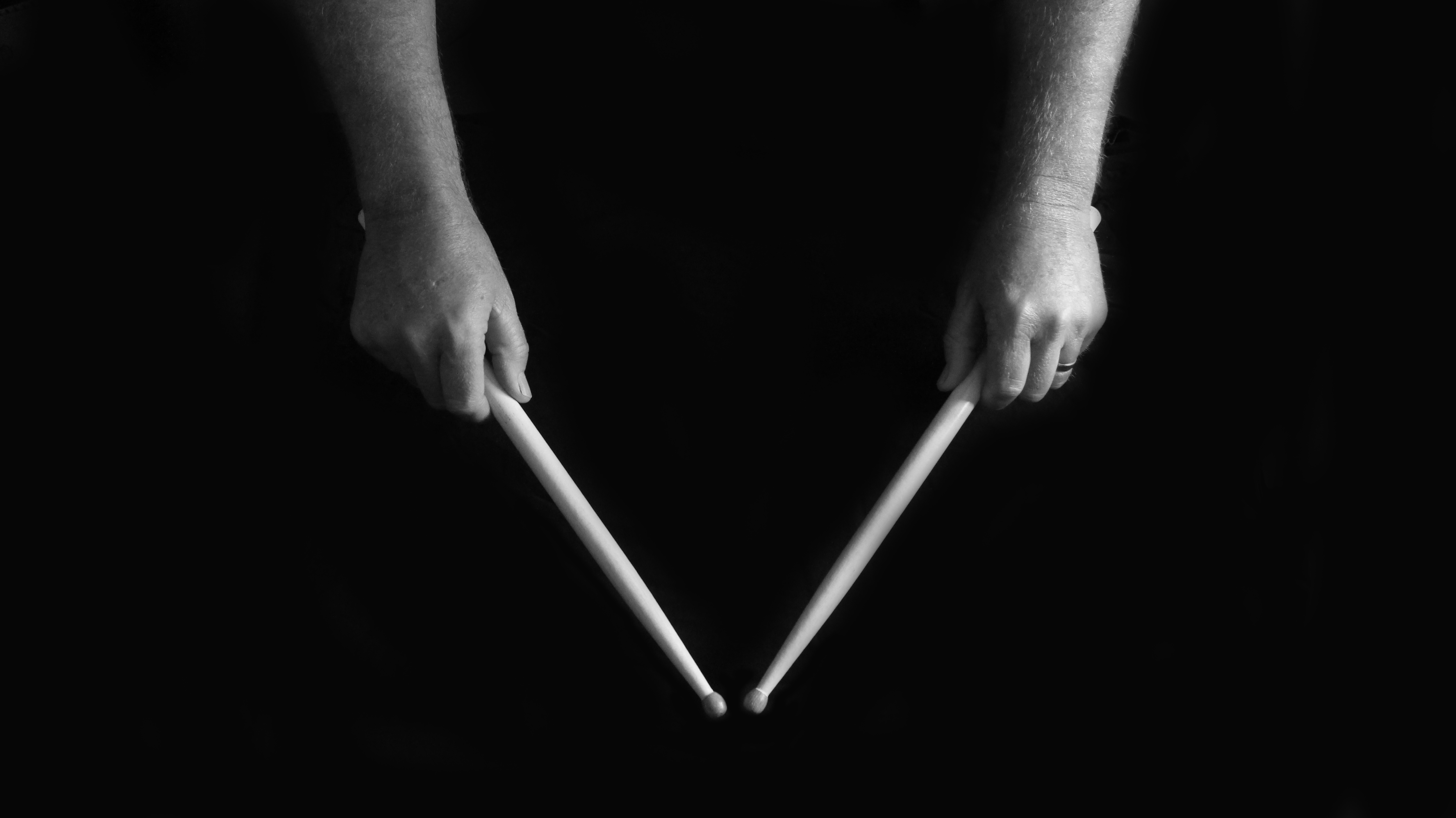 Matched grip used in drumming.